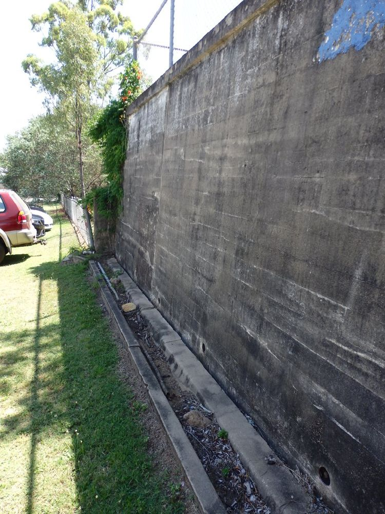 Lower playground eastern retaining wall, southern end, with gutter, looking SW (EHP, 2015)